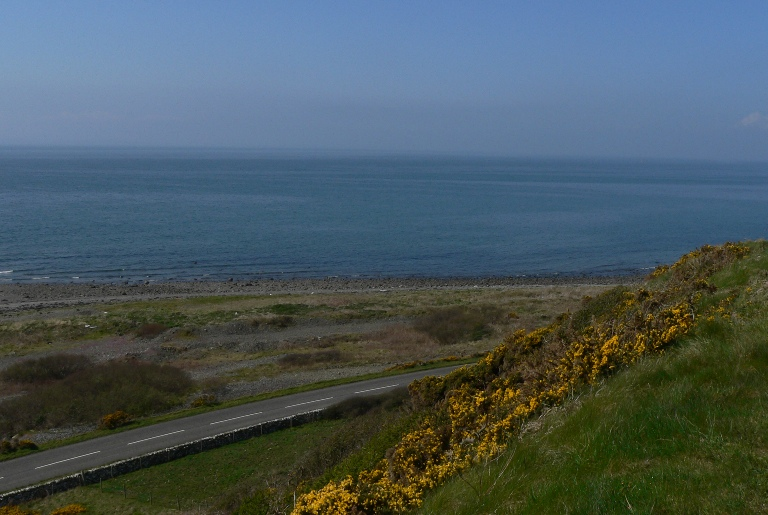 Barsalloch Fort, Dumfries and Galloway, Scotland - view over Luce Bay